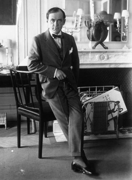 French caricaturist and poster artist Georges Goursat, better known as Sem (1863-1934).